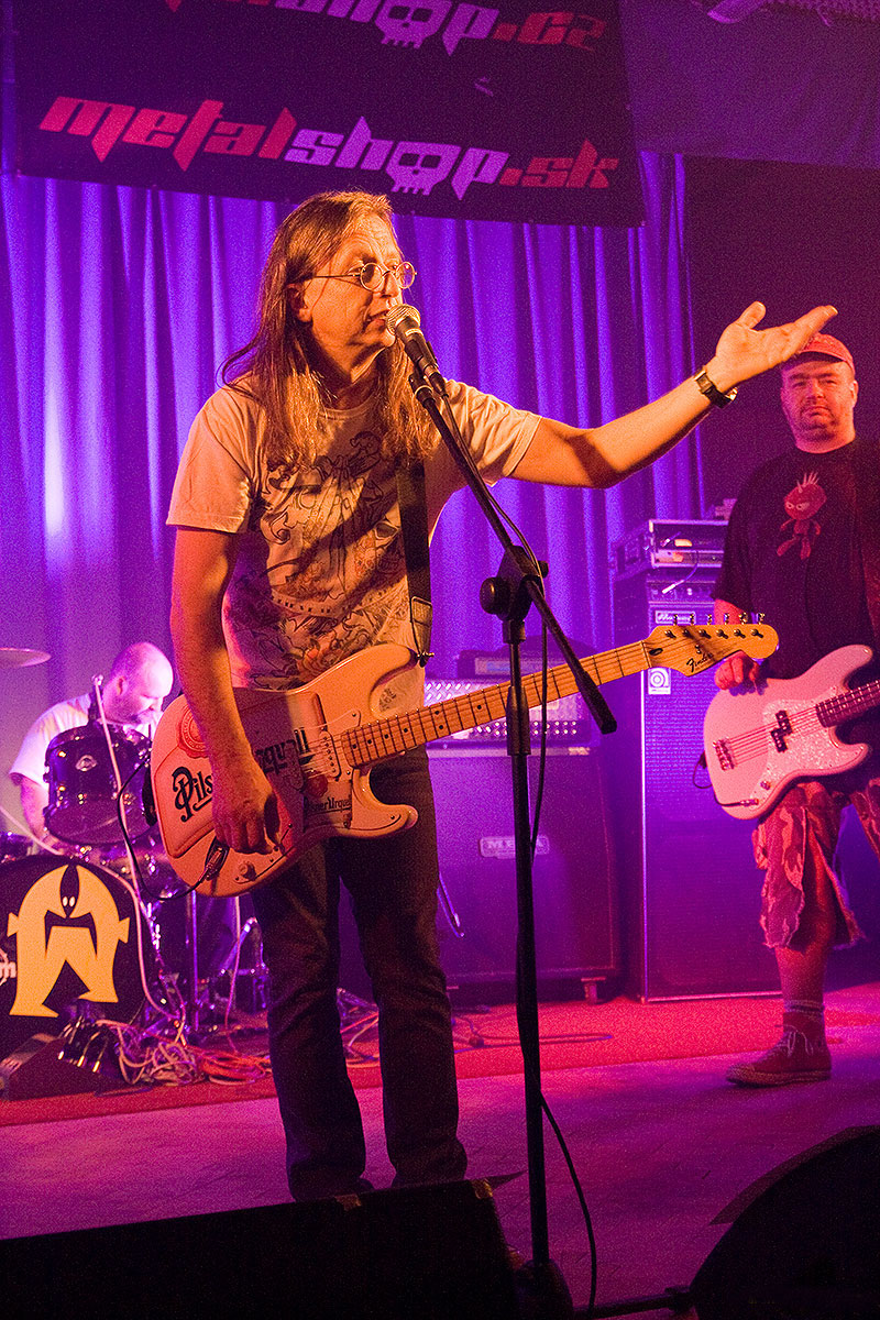 Alkehol 4. 11. 2010 in the Barrocko club (EU - Czech Republic - Třinec).